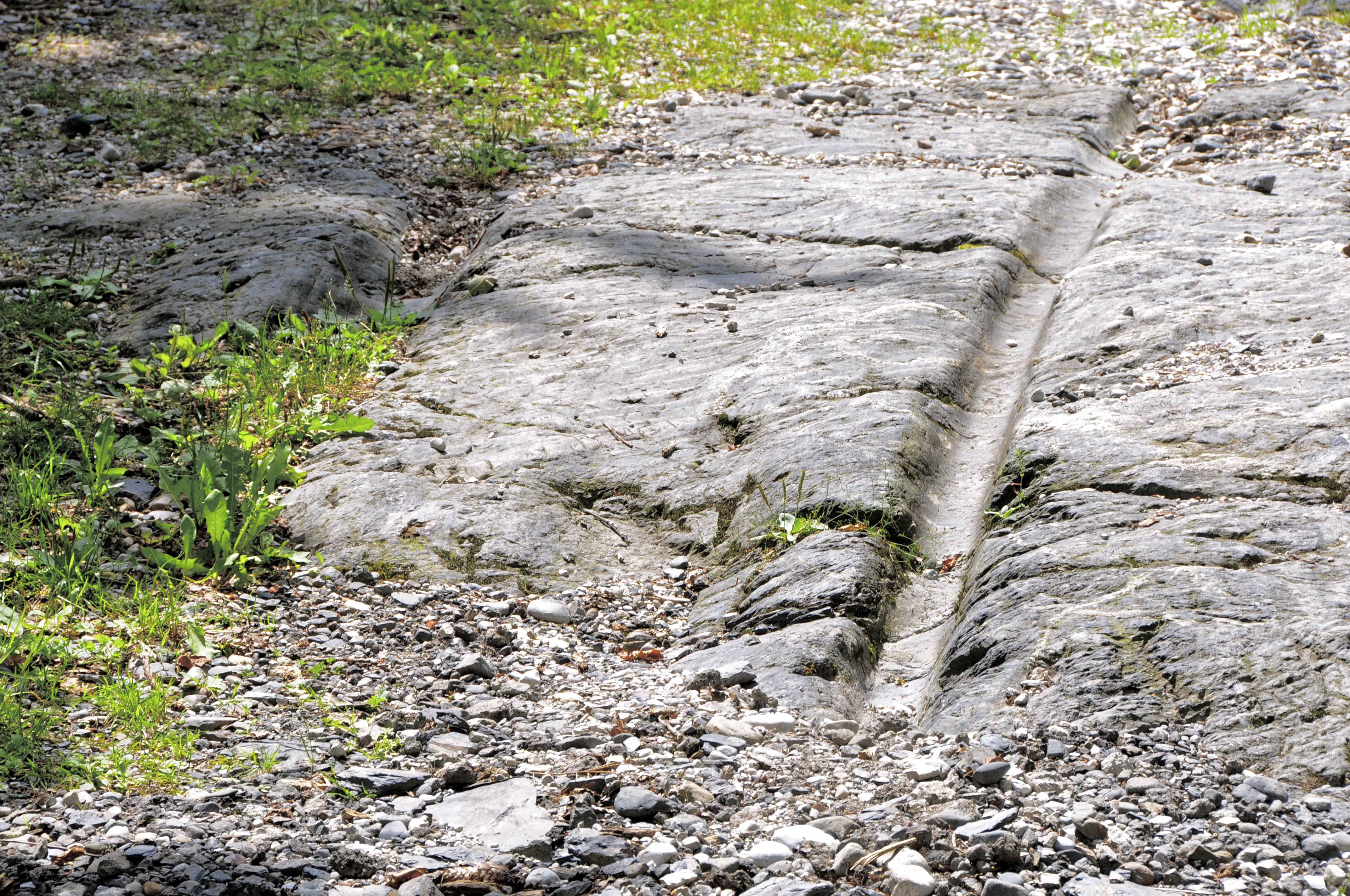 Lane grooves on the ancient Roman road east of Maglern, municipality Arnoldstein, district Villach Land, Carinthia / Austria / EU